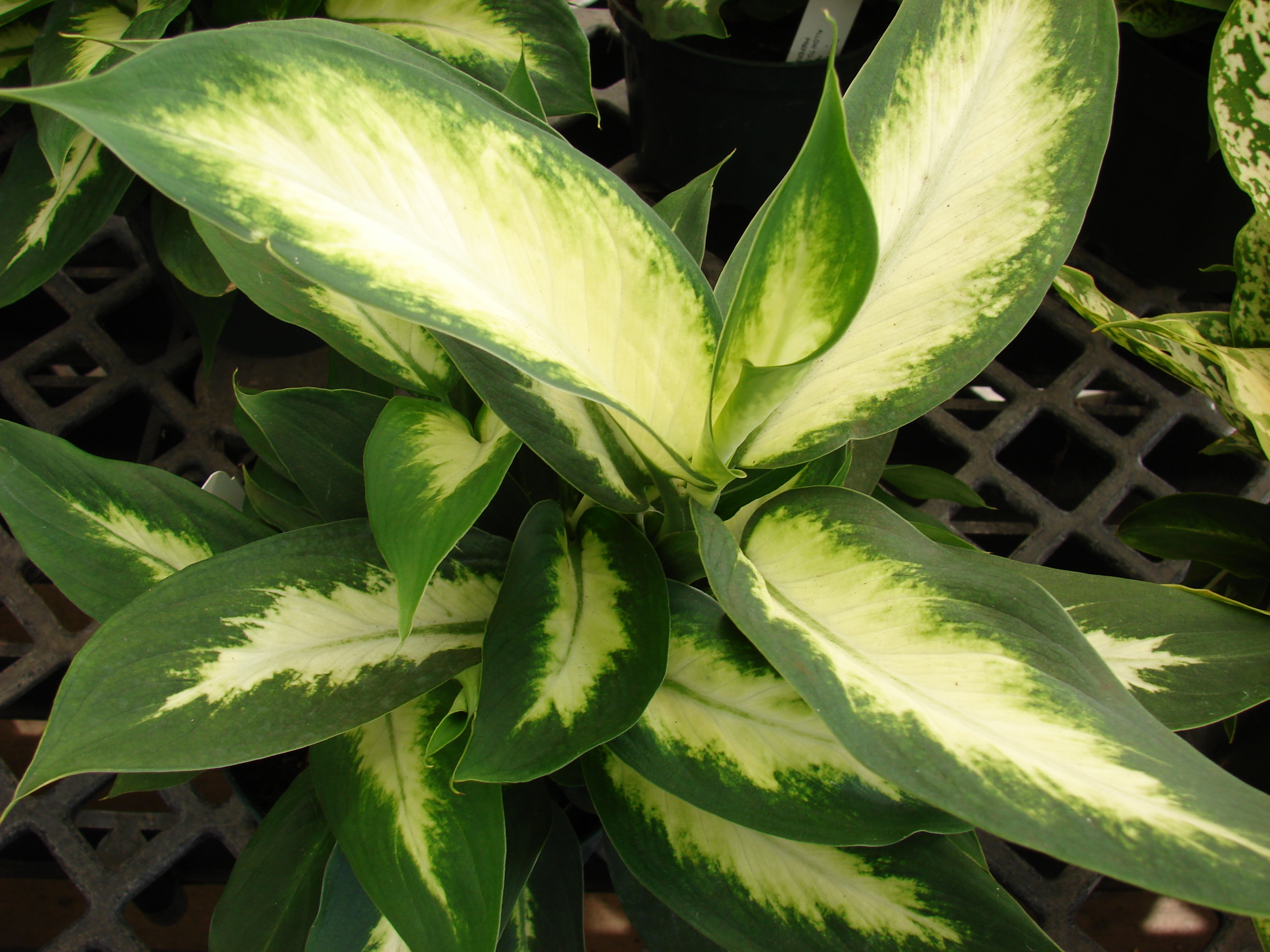 Dieffenbachia maculata (Camille leaves). Location: Maui, Walmart Kahului